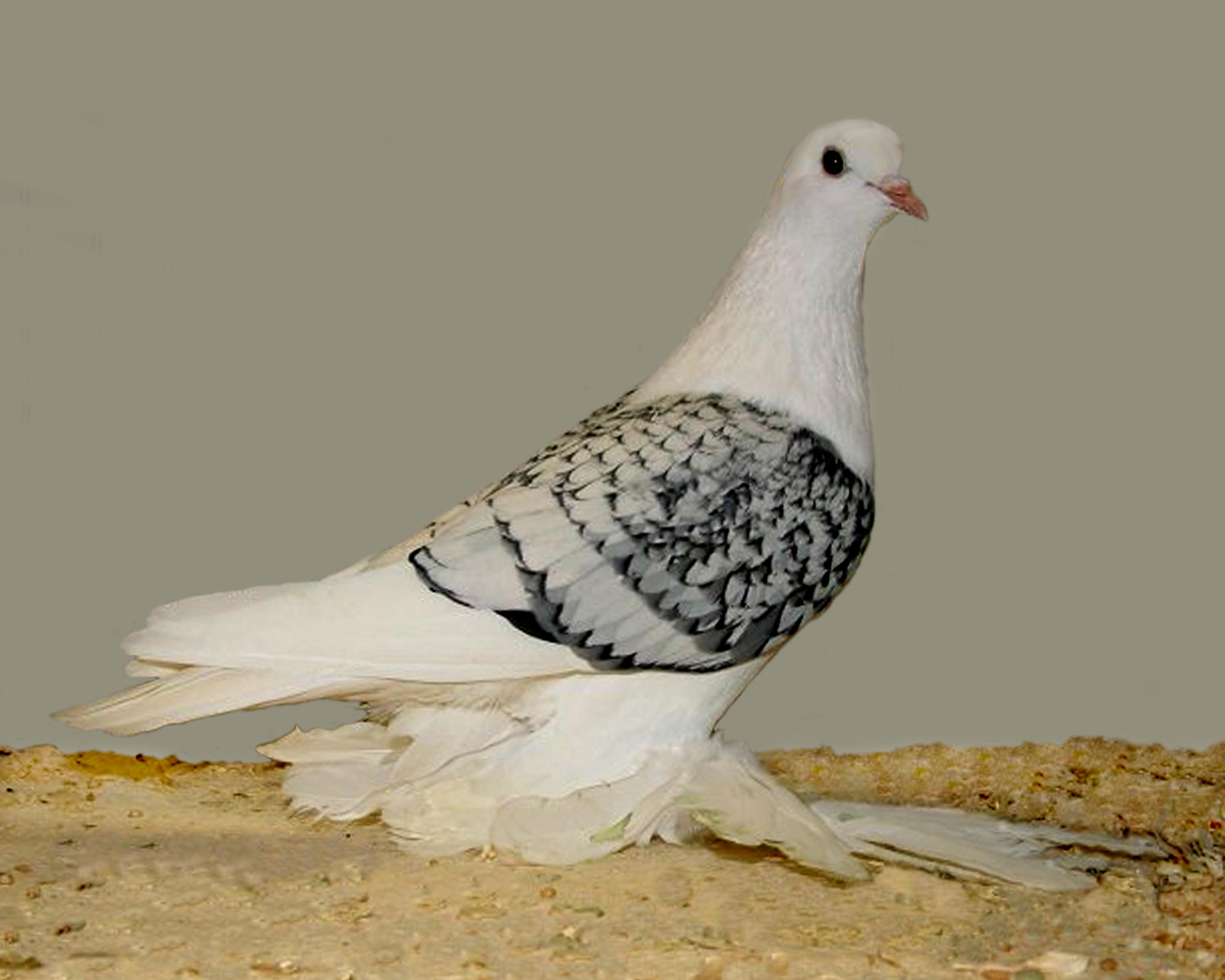 Ice Pigeon, Muffed (Silver Chequer)